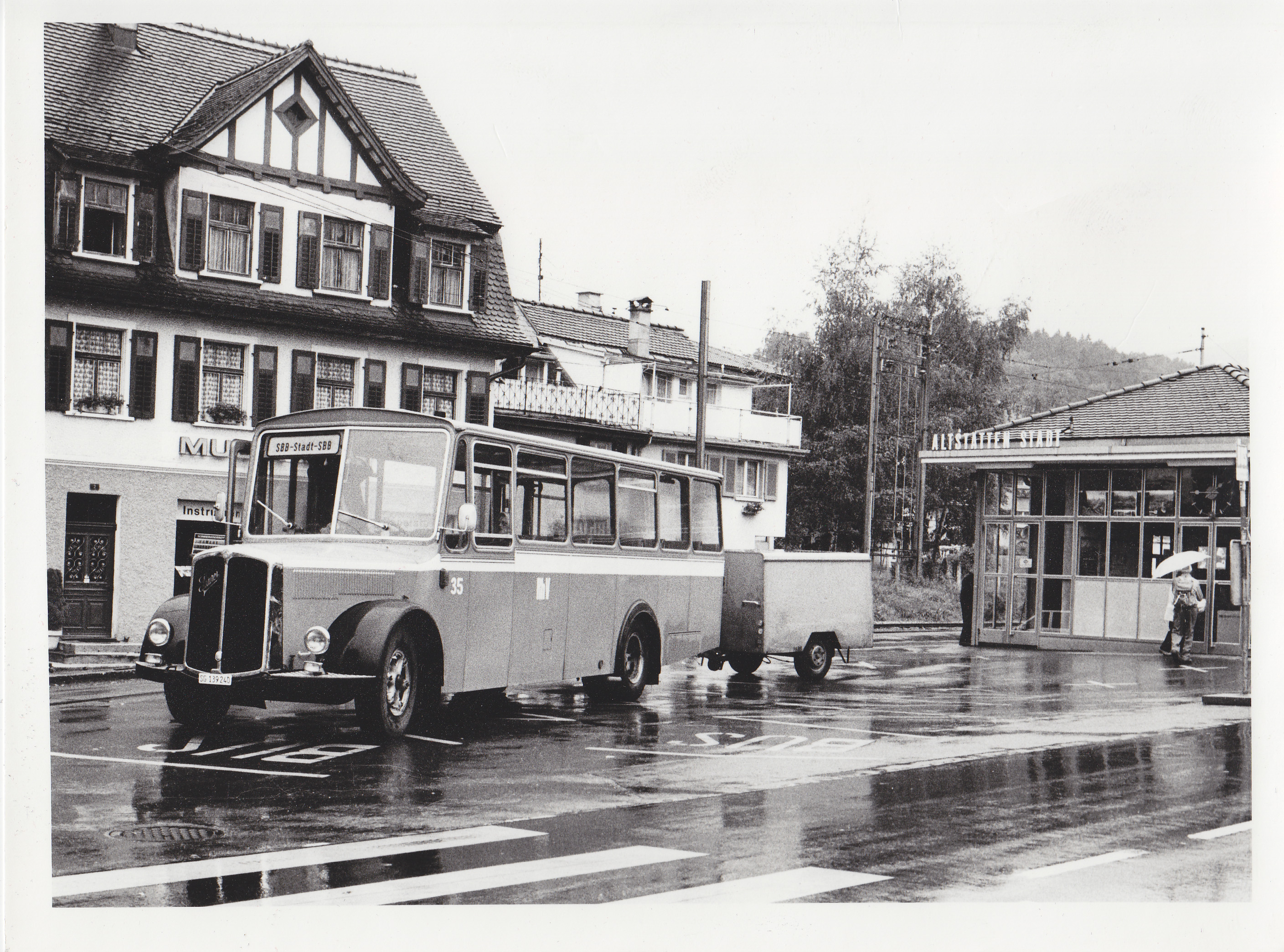 Swiss Bus in Altstätten